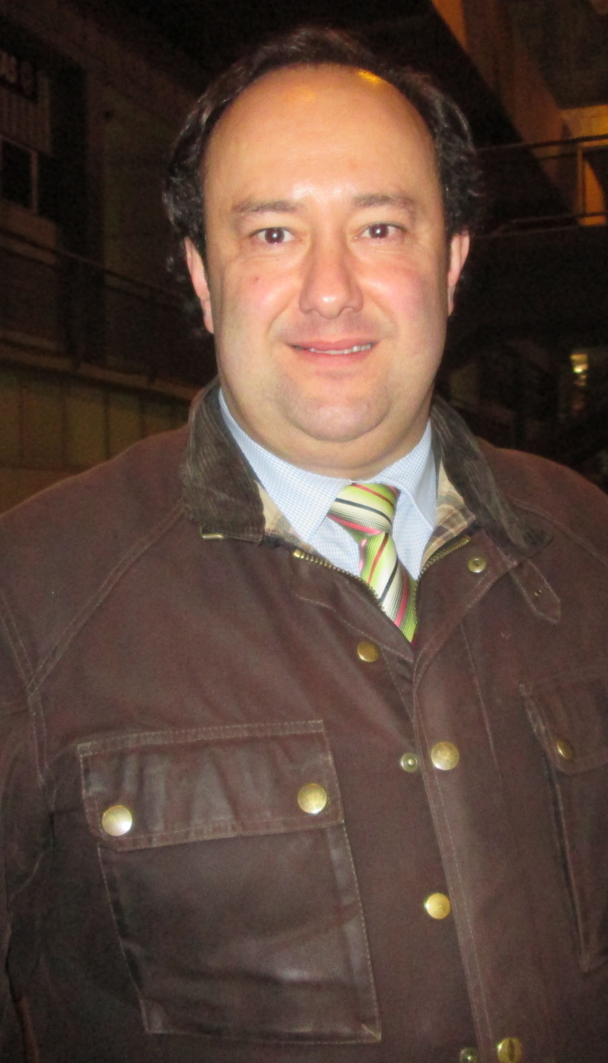 Jorge Menéndez Vallina, Real Oviedo chairman